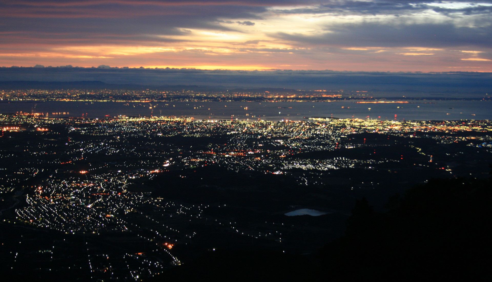 Ise Bay and Yokkaichi, Mie from Mount Gozaisho